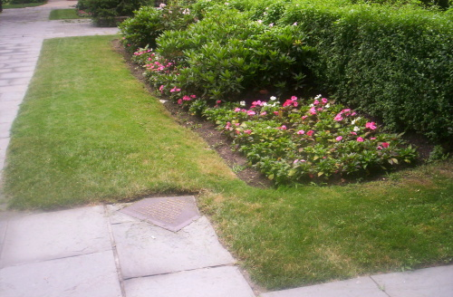 In the courtyard at Columbia-Presbyterian Medical Center a plaque marks the former site of Hilltop Park's home plate. Photo taken by John W. Leys on 27 July 2005